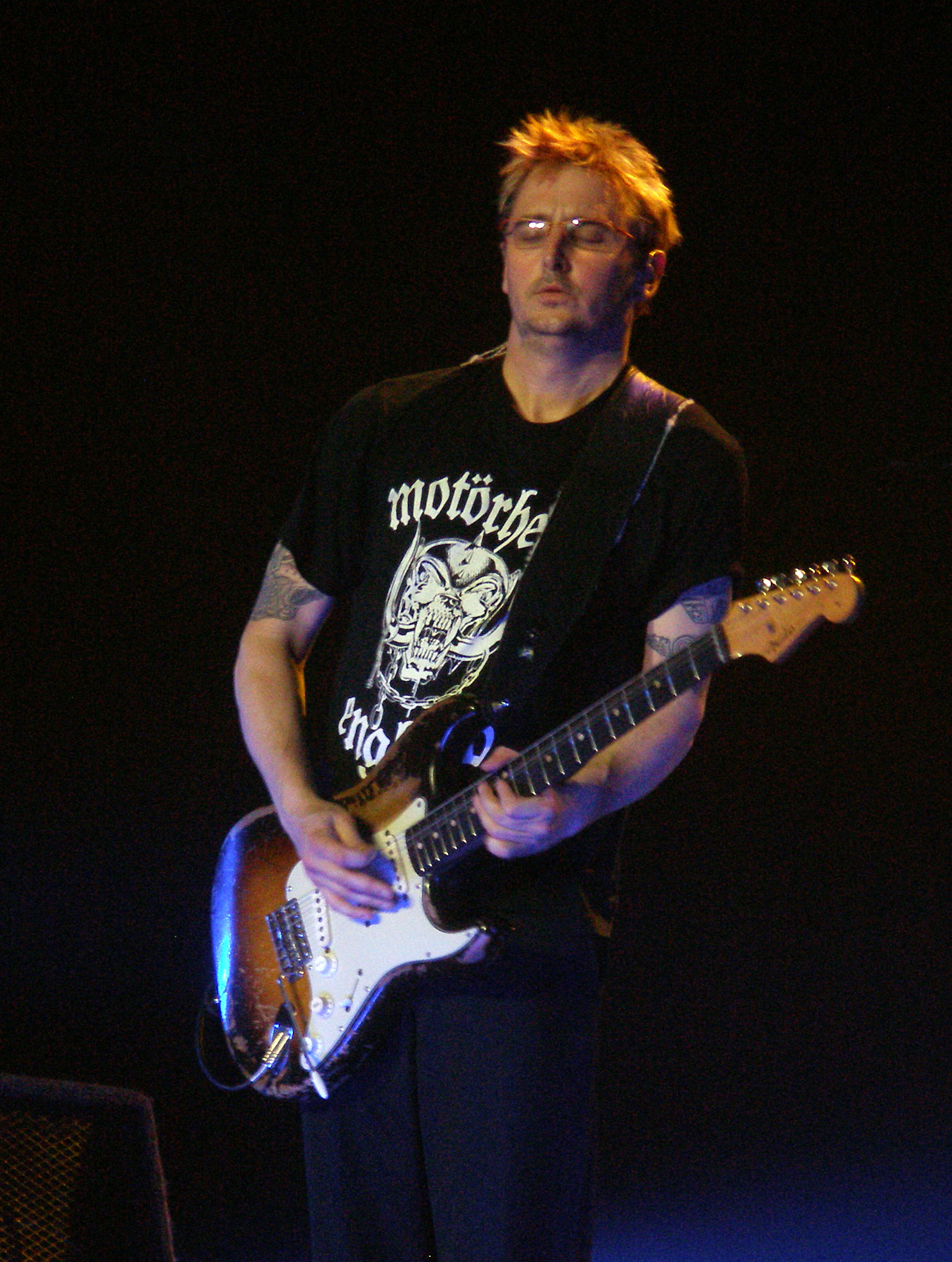 Mike McCready onstage with Pearl Jam in Albany, 2006.